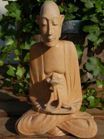 Wooden statue of Mahakasyapa